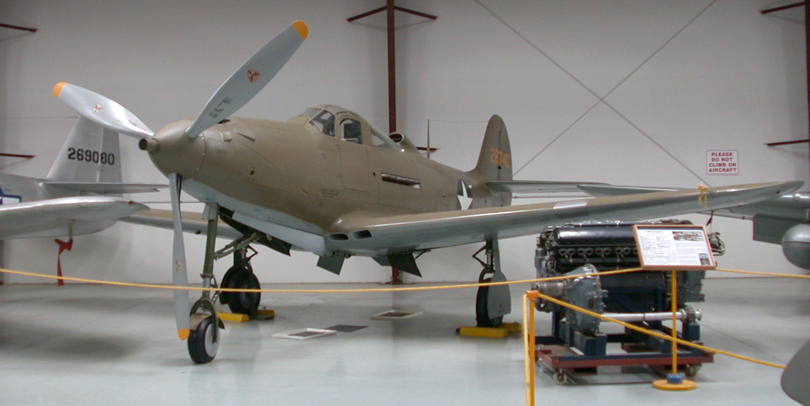 Bell P-39 Airacobra, Yanks Air Museum, Chino, California